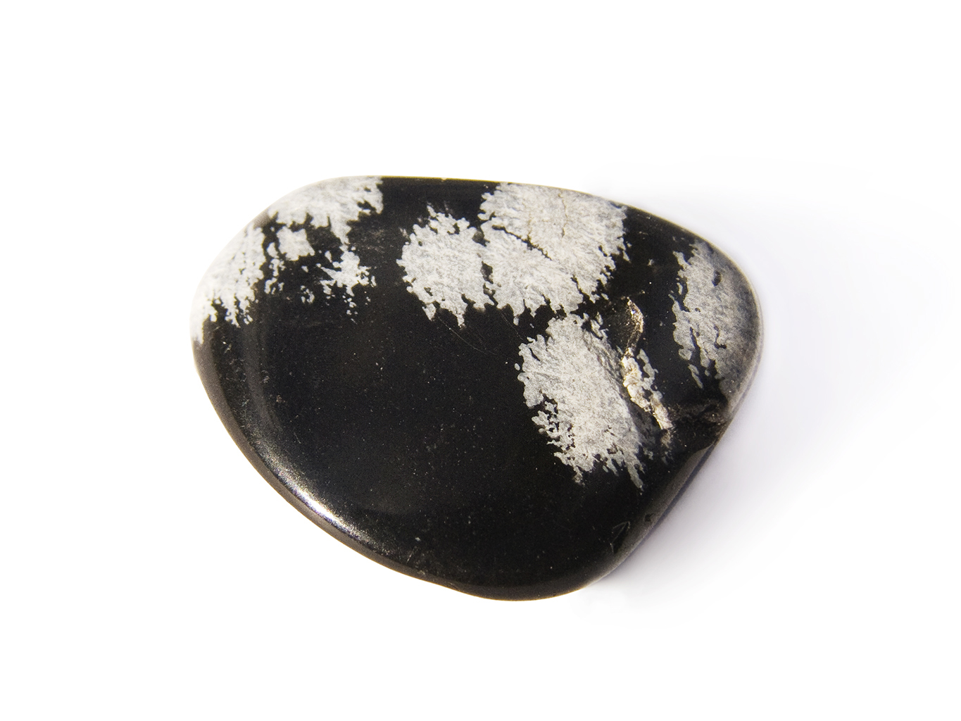 Snowflake obsidian